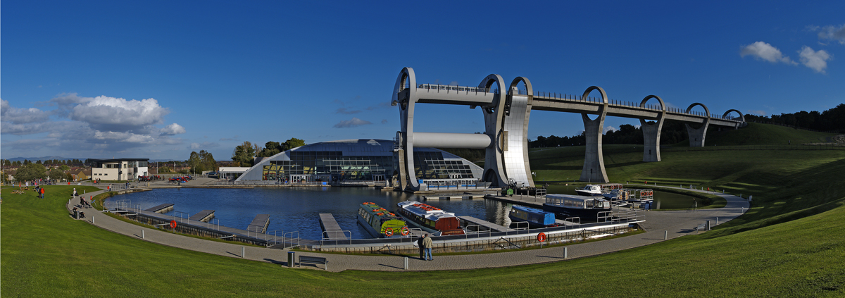 The Falkirk Wheel panorama